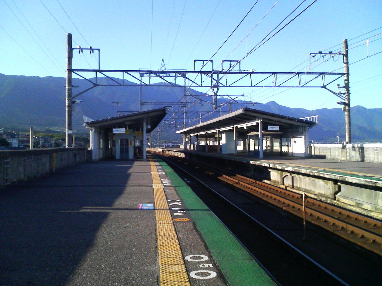 JR Wani station platform